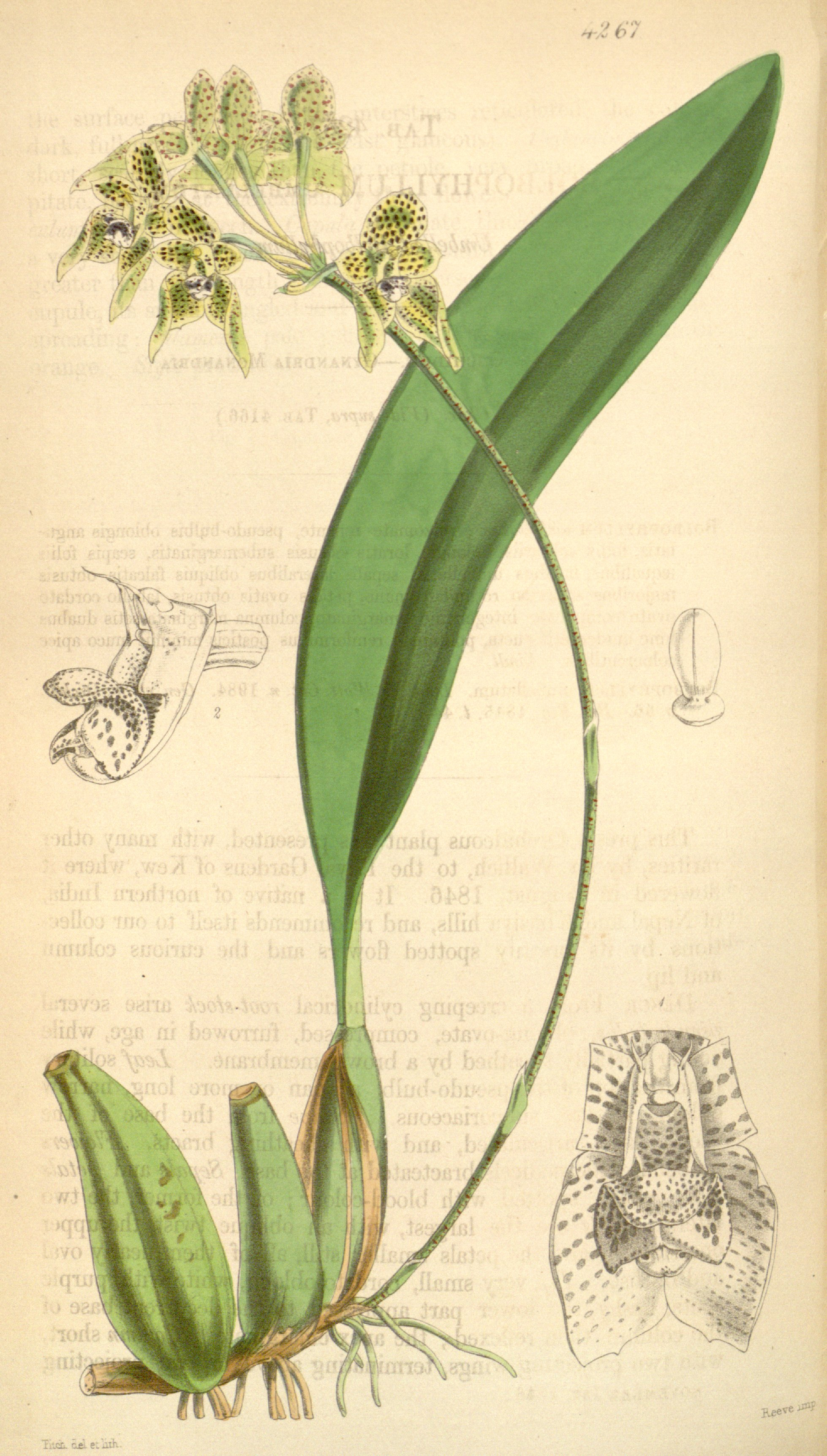 Illustration of Bulbophyllum umbellatum (spelled Bolbophyllum umbellatum)